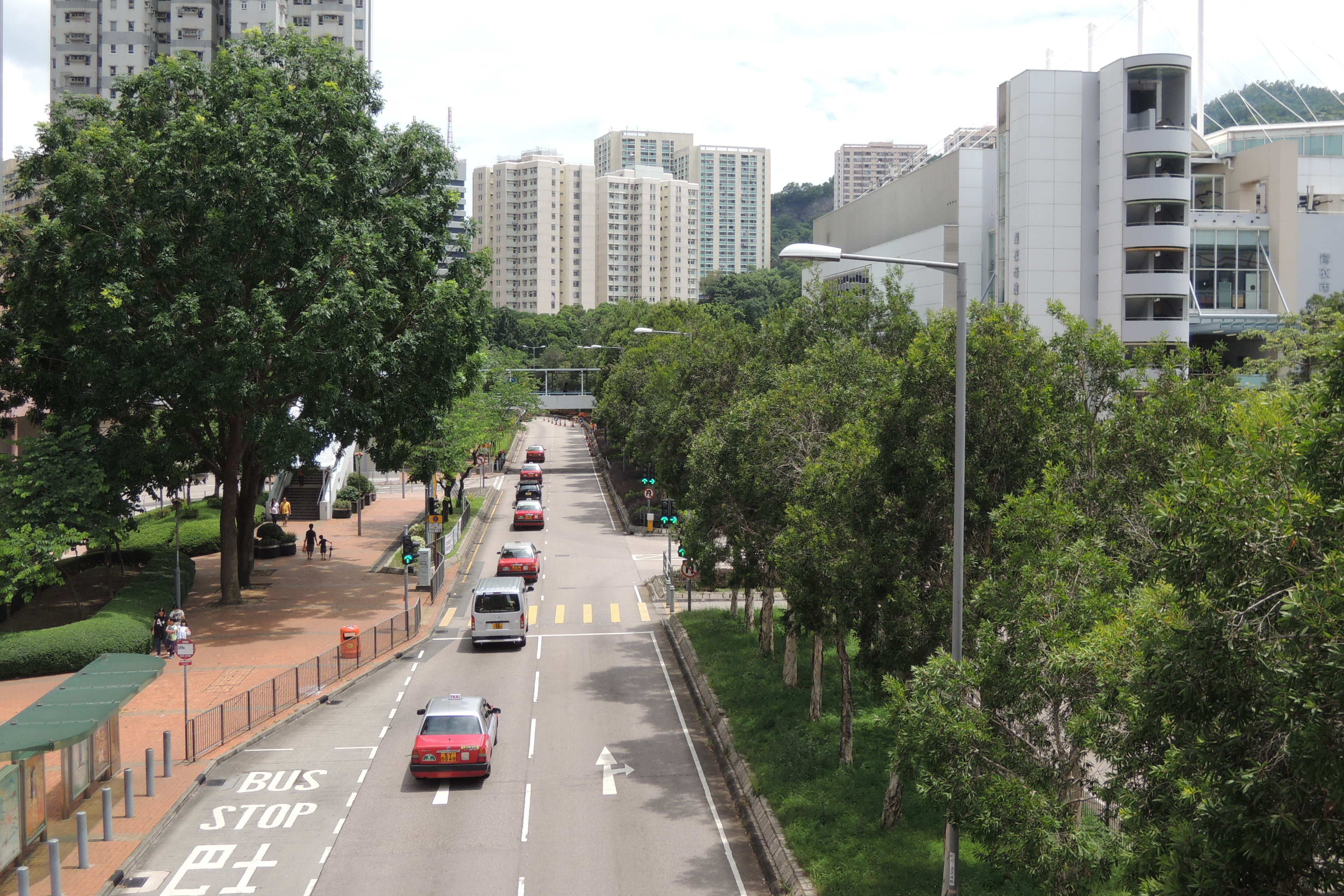 Tsing King Road near Tsing Yi Municipal Services Building, Tsing Yi, Hong Kong.